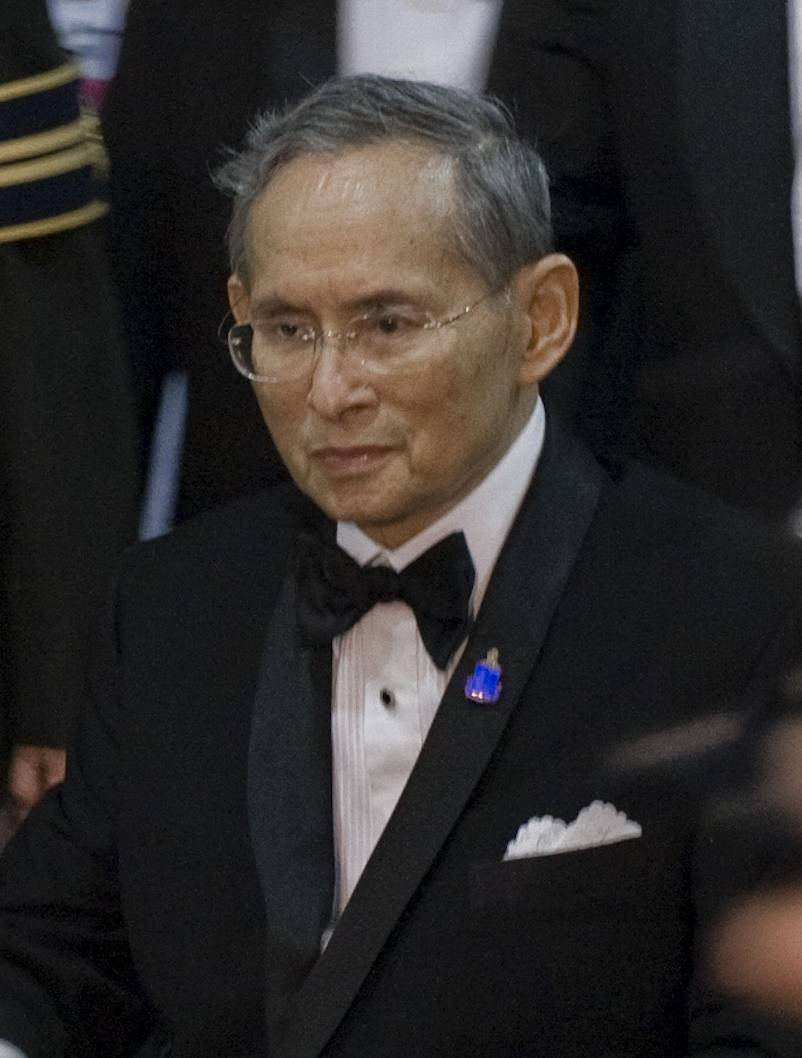 Thailand's King Bhumibol Adulyadej attends a concert at Siriraj hospital in Bangkok on September 29, 2010.